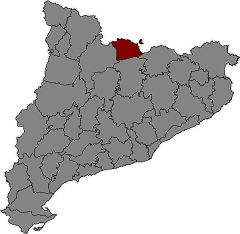 Location of Baixa Cerdanya at Catalonia